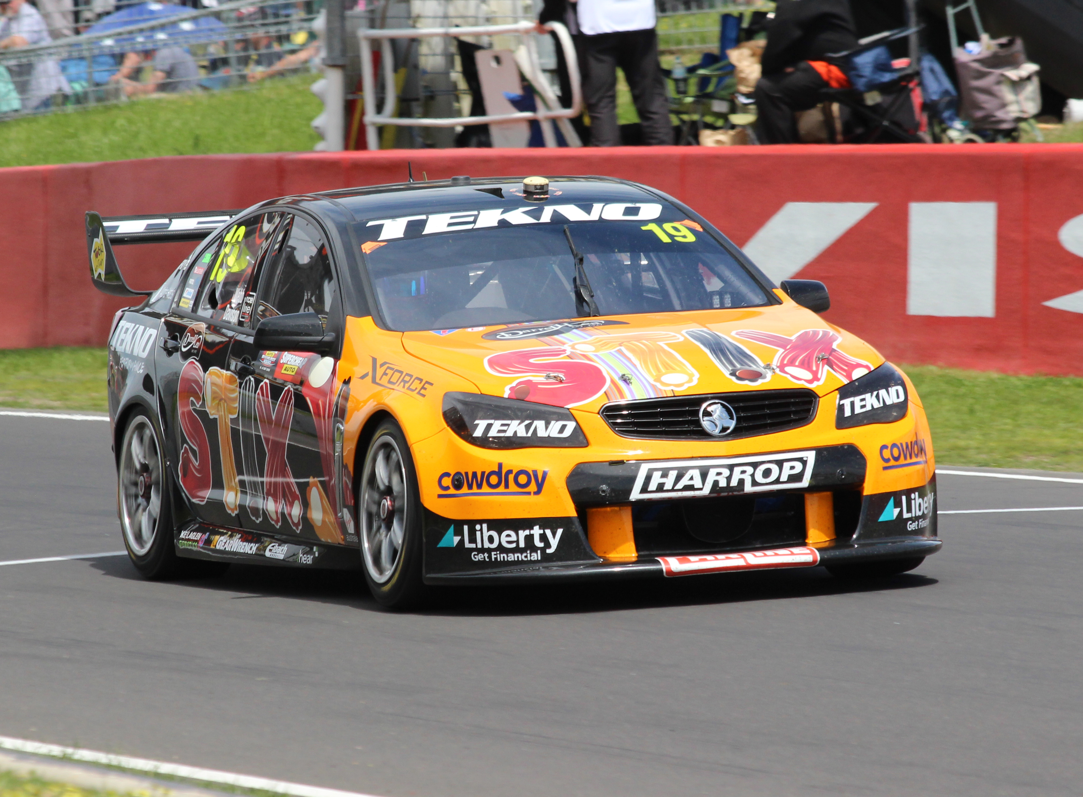 The Tekno Autosports Holden VF Commodore of Will Davison and Jonathon Webb during the 2016 Supercheap Auto Bathurst 1000.